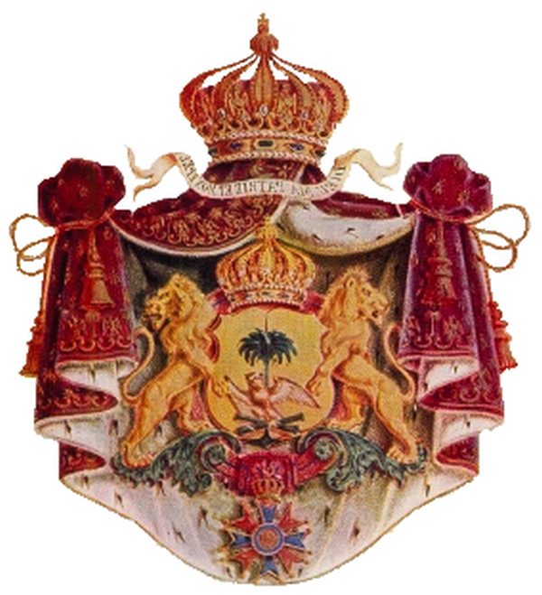 Imperial Coat of arms of Haiti